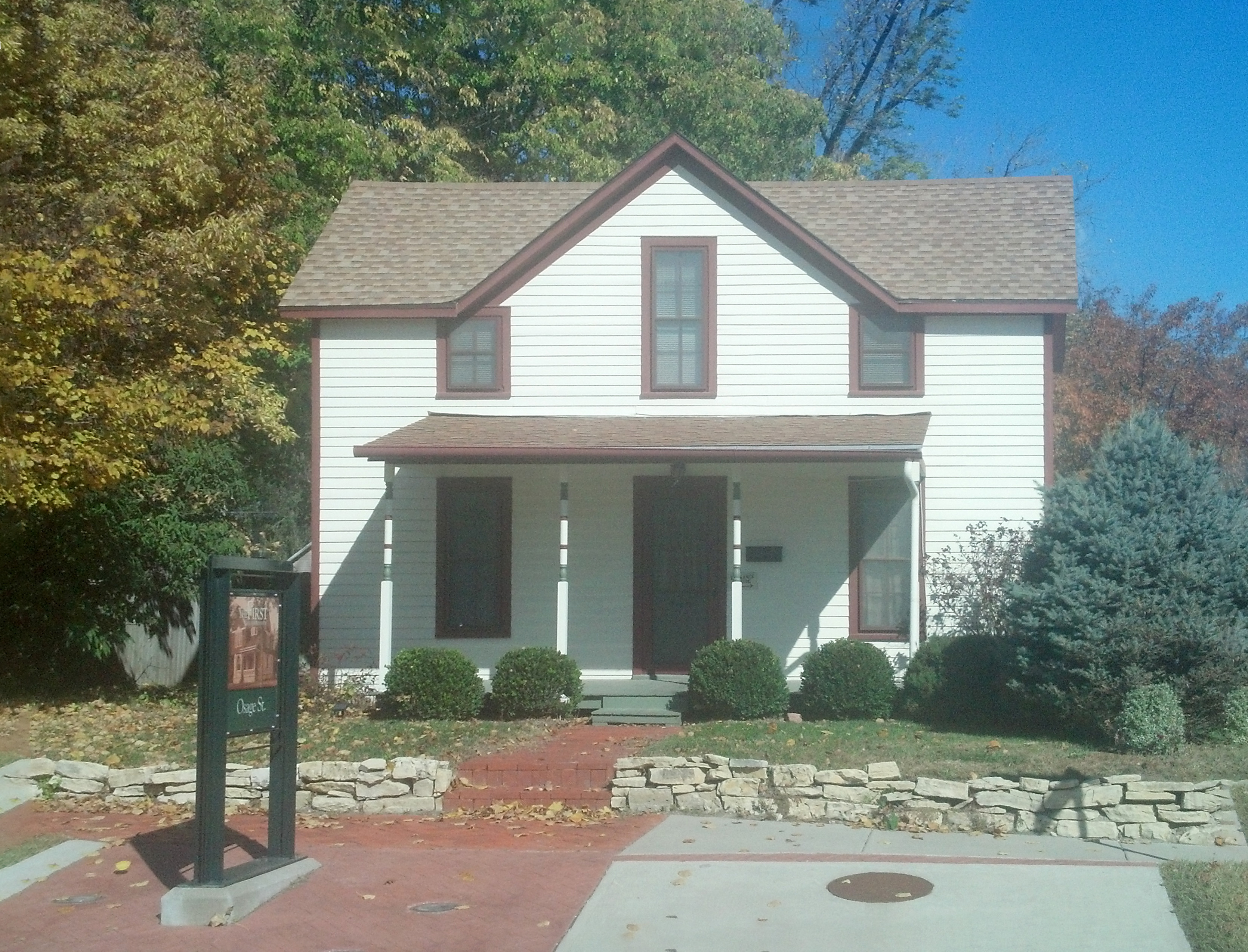 Damon Runyon House